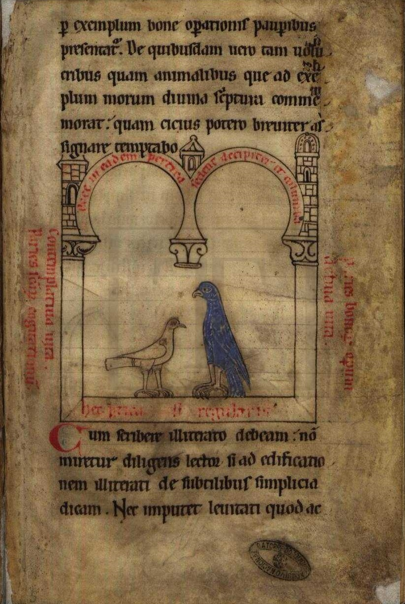 Livro das Aves: the Dove and the Hawk (the image represents the auther, Hugh de Fouilloy, and Rainier, a former knight turned munk, to whom thw work is dedicated)